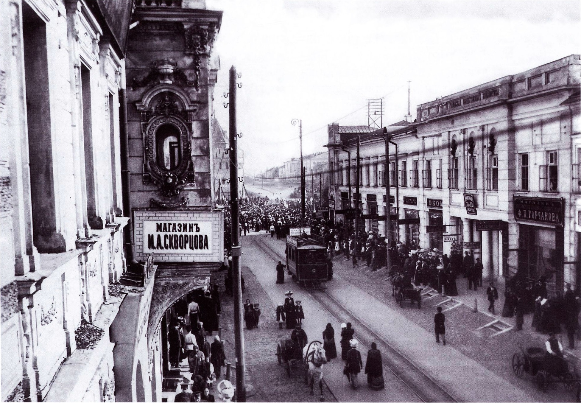 Tram on the Bolshaya Pokrovskaya Street. Nizhny Novgorod